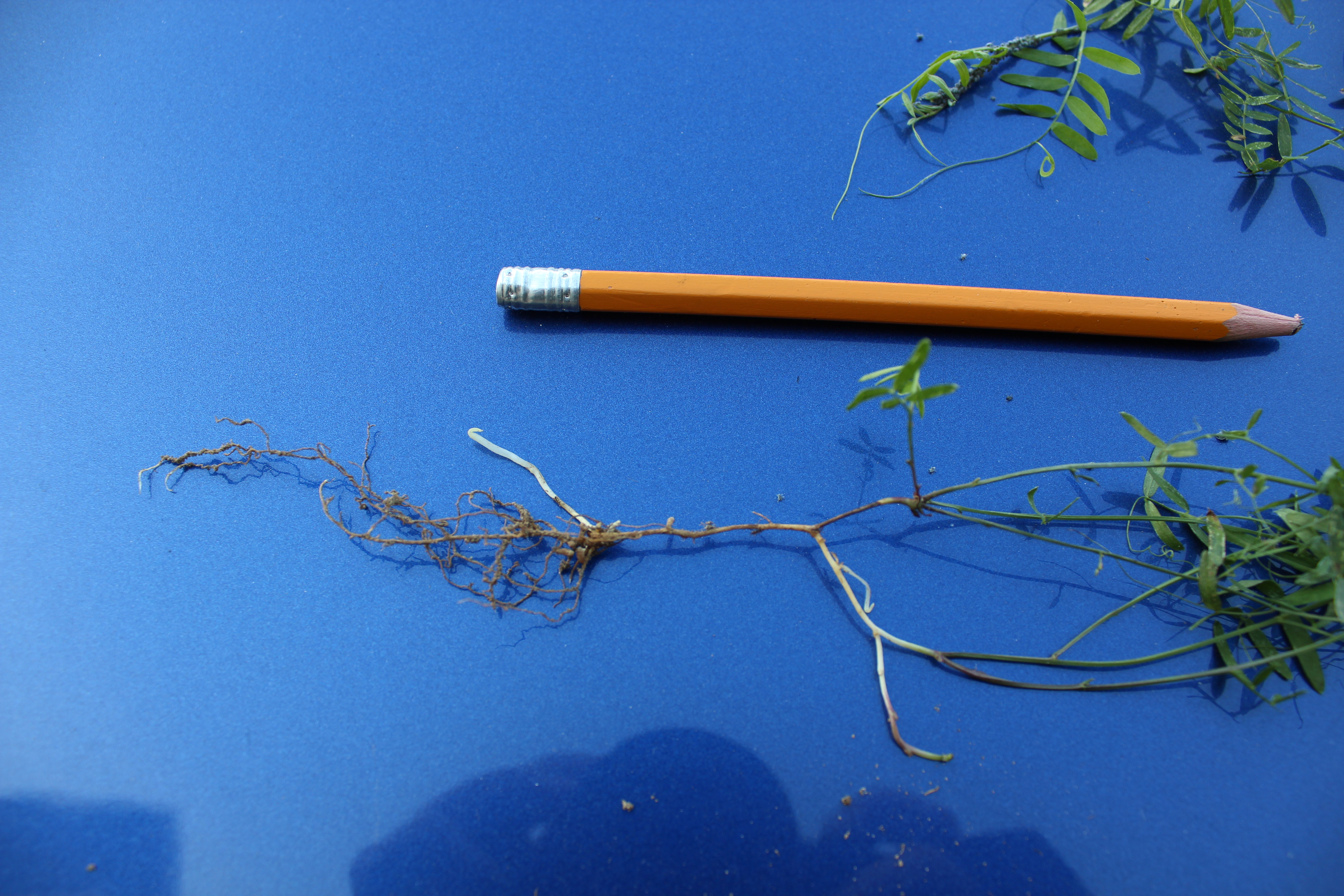 Vicia cracca rhizome (white) and shoots